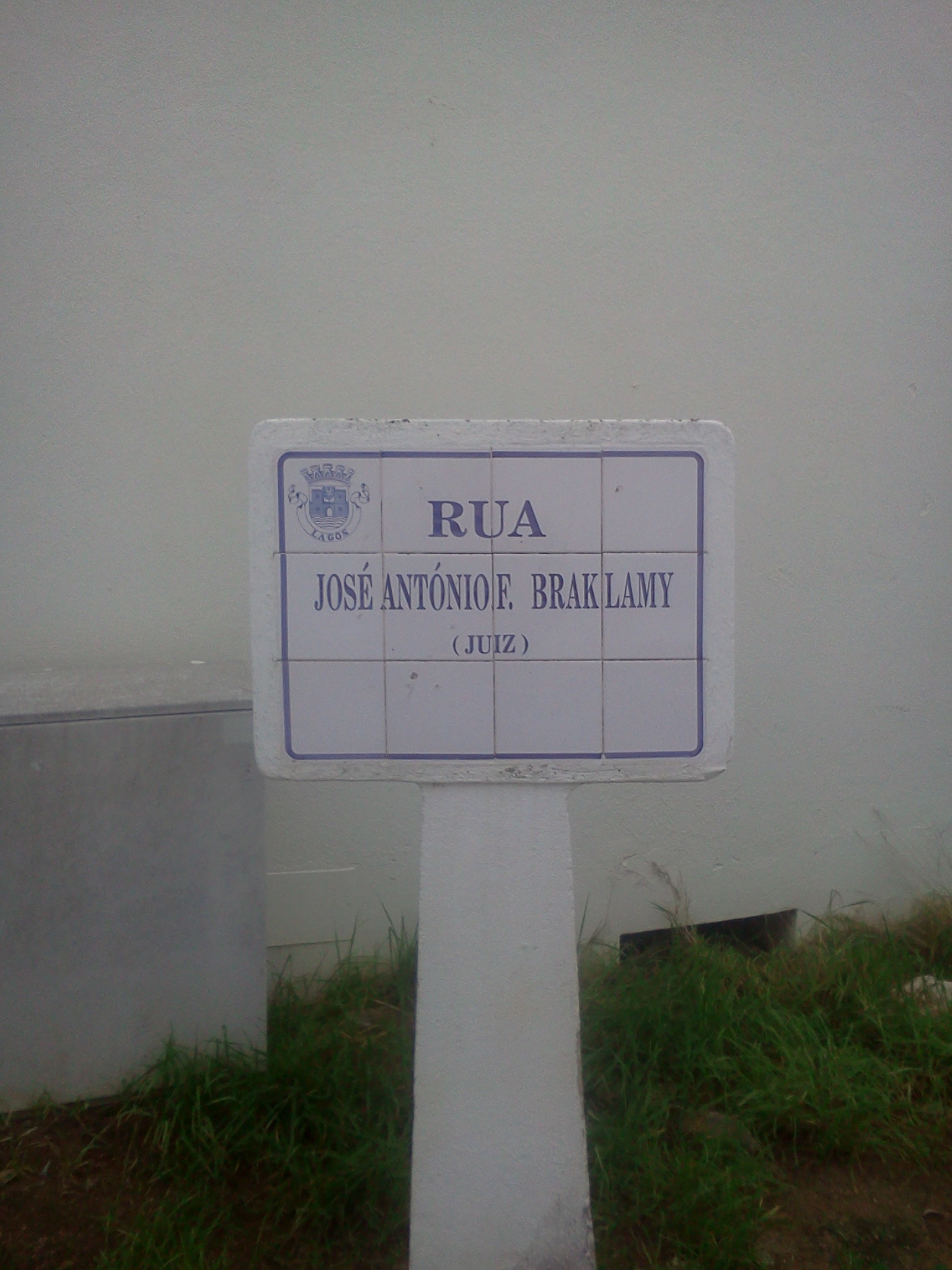 Street sign of Rua José António Ferreira Brak-Lamy, in the city of Lagos, in southern Portugal.